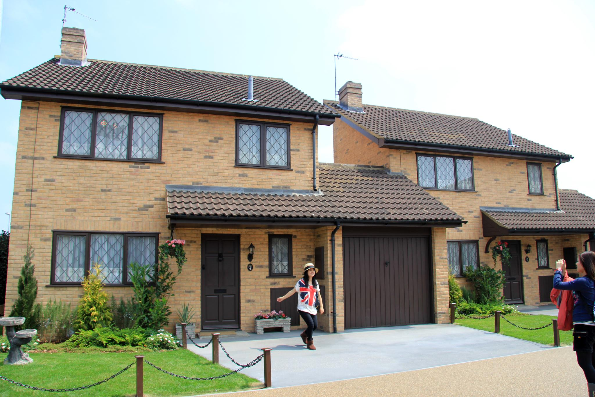 Warner Bros. Studio Tour London: The Making of Harry Potter.